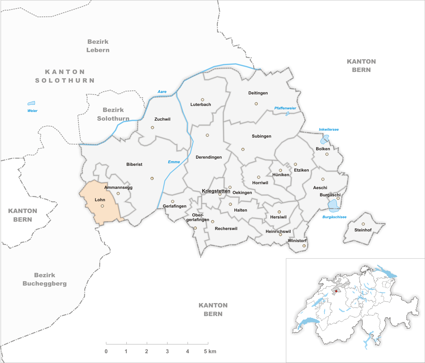 Municipality Lohn Artist: Tschubby